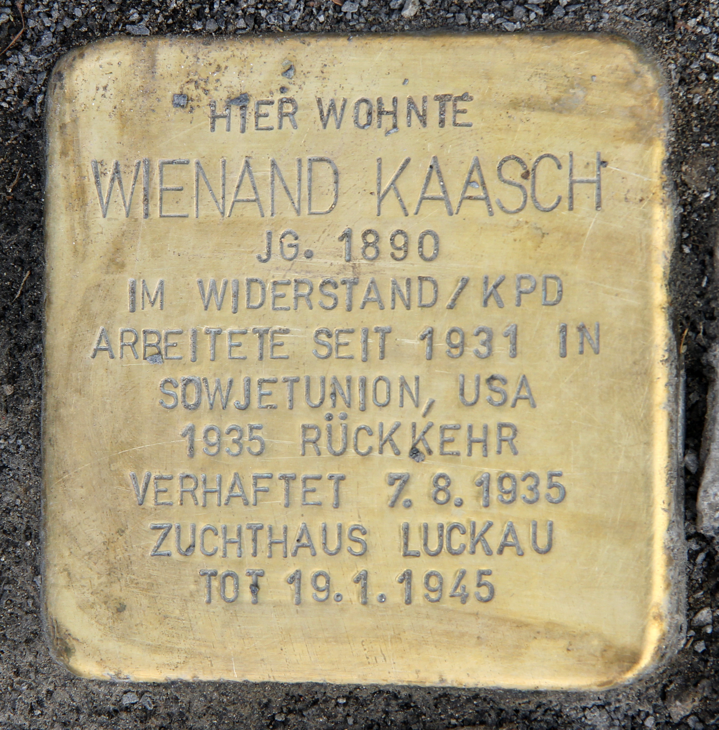 "Stolperstein" (stumbling block), Wienand Kaasch, Parchimer Allee 94, Berlin-Britz, Germany gestohlen vom 5. zum 6. November 2017